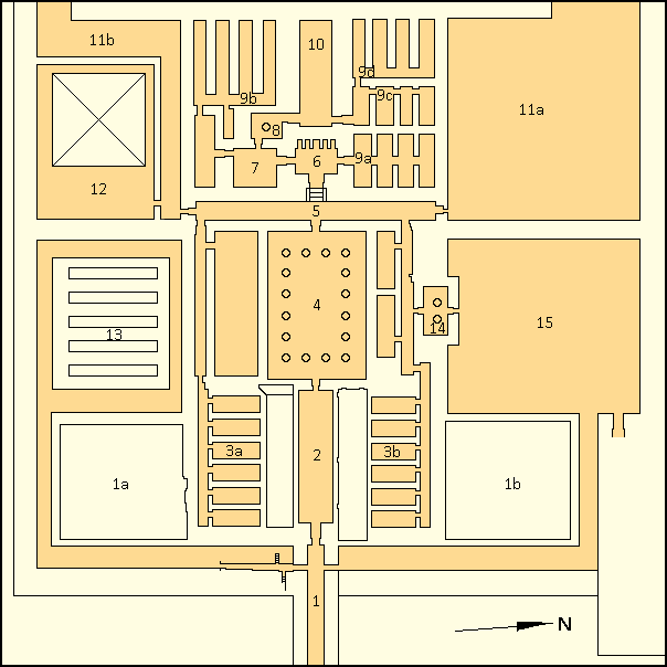 Layout of Djedkare Isesi's mortuary temple. In order: 1) Causeway connecting to the mortuary temple between (1a and b) two pylons; 2) Entrance hall with (3a and b) storerooms to the north and south; 4) Courtyard; 5) Transverse corridor; 6) Five niche chapel; 7) Vestibule; 8) Antichambre carrée; 9a-d) Storerooms surrounding the (10) Offering hall; 11a and b) Courtyard surrounding the pyramid; 12) Cult pyramid enclosure; 13) Large structure of unknown purpose; 14) Unknown Based predominantly on Megahed, Mohamed; Jánosi, Peter; Vymazalová, Hana (2018) Djedkare's pyramid complex: Preliminary report of the 2017 season in Pražské egyptologické studie (21) pp. 36 and partially on Lehner, Mark (2008). The Complete Pyramids New York: Thames & Hudson p. 153